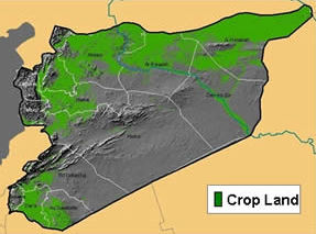 A map of crop land coverage in Syria.